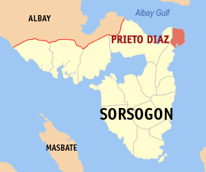 Map of Sorsogon showing the location of Prieto Diaz